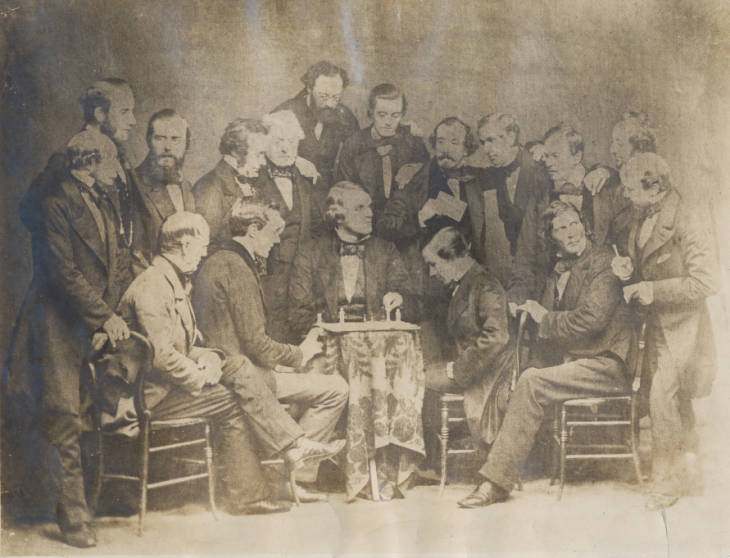 Players at the first American Chess Congress, 1857. Morphy seated at right playing with Paulsen. The beardless youth near centre of top row is D.W. Fiske.